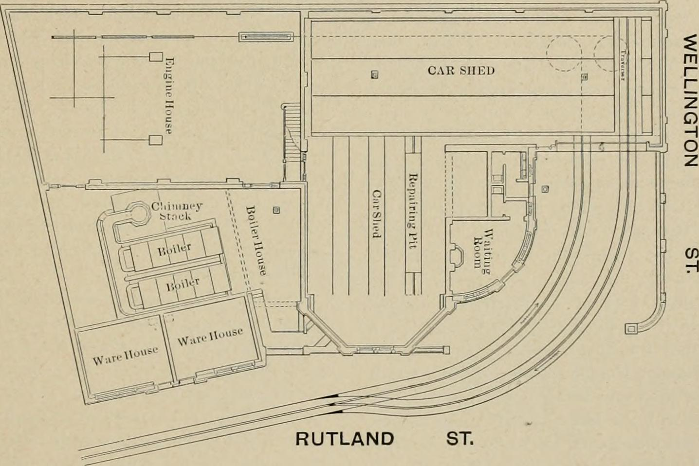 «RUTLAND GROUND PLAN MATLOCK CABLE POWER HOUSE» (original caption) Title: The street railway review Year: 1891 (1890s) Authors: American Street Railway Association Street Railway Accountants' Association of America American Railway, Mechanical, and Electrical Association Subjects: Street-railroads Publisher: Chicago : Street Railway Review Pub. Co